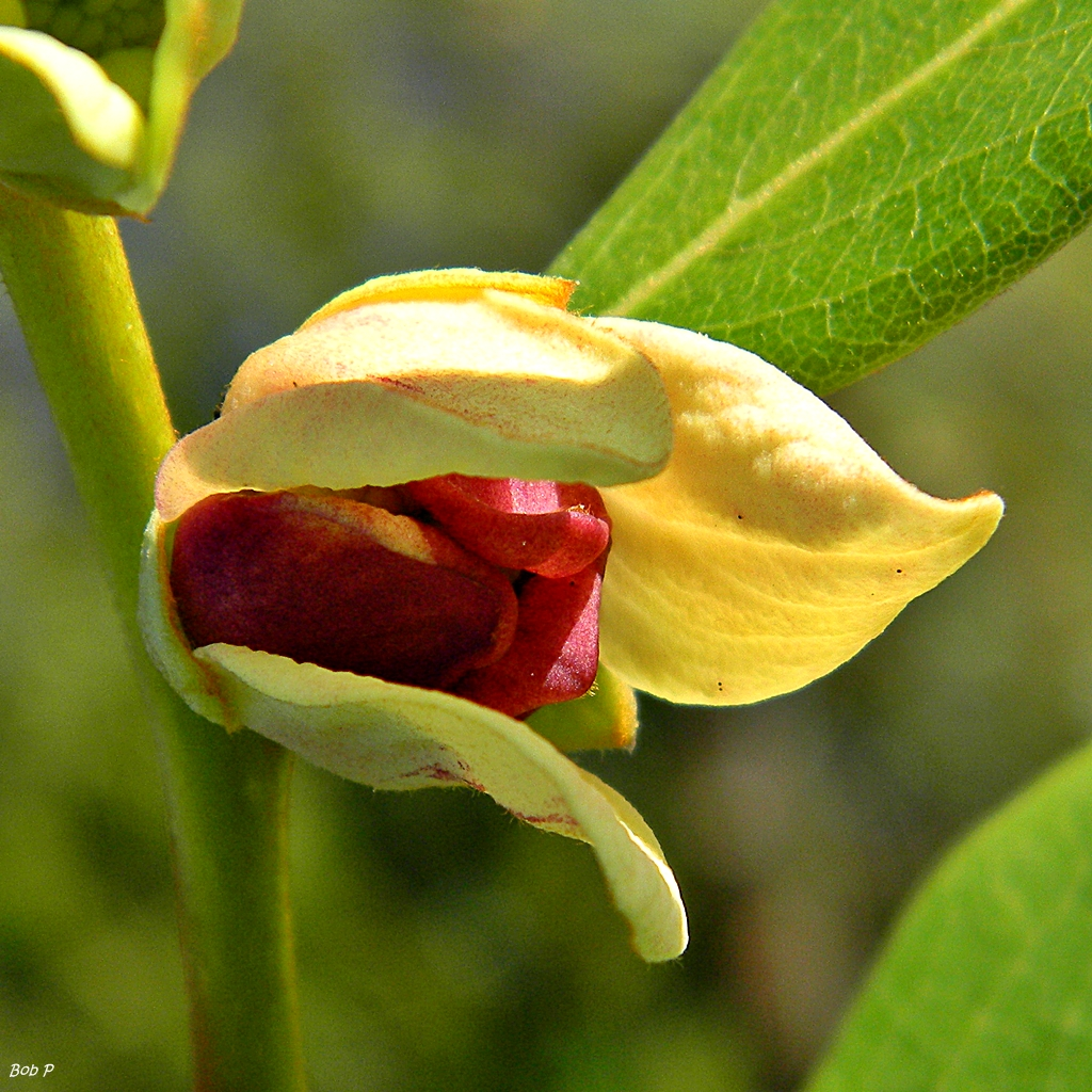 This beautiful pawpaw species, endemic only to Palm Beach, Martin & St. Lucie Counties, is critically imperiled. Habitat loss, fire suppression, human disturbance and loss of pollinators have left it endangered and rare. The above plant is living and blooming happily deep in the oak scrub upon ancient Pleistocene sand dunes.